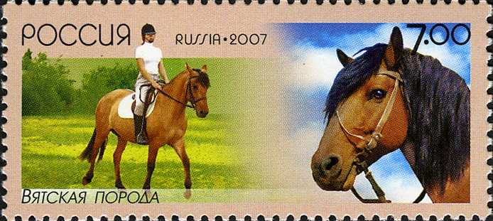 Native Horse Breeds - Vyatka breed